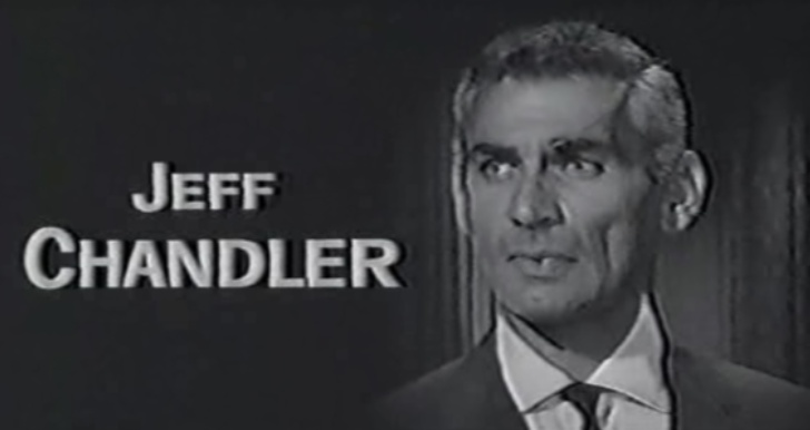 Cropped screenshot of Jeff Chandler from the trailer for the film The Tattered Dress (1957).